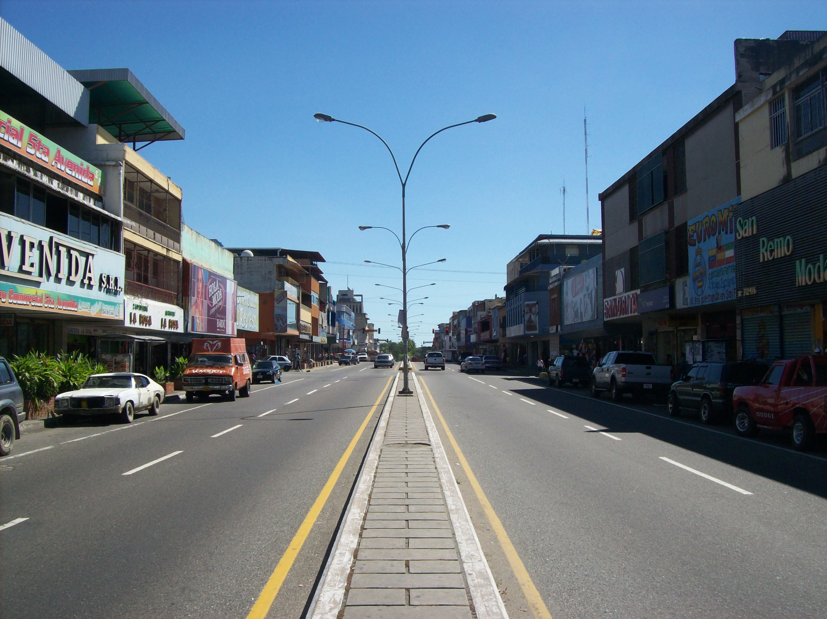 Avenue Liberator (Fifth Avenue) in San Felipe, Yaracuy state. Venezuela